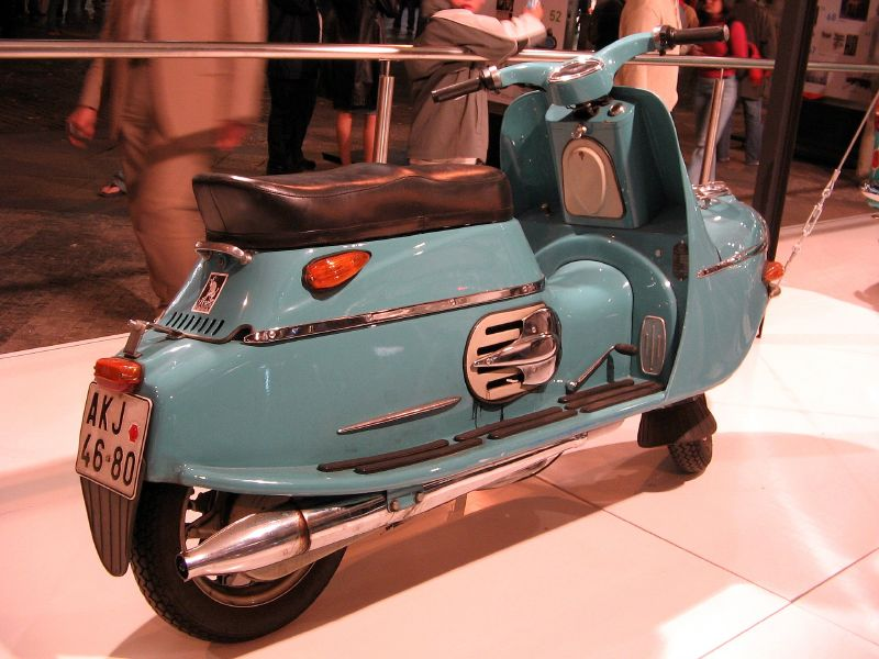 Quite possibly the ugliest scooter ever made representing Czech design from the 1950's to the 1960's on display as part of DesignBlok '05 in Wenceslas Square in Prague, Czech Republic.